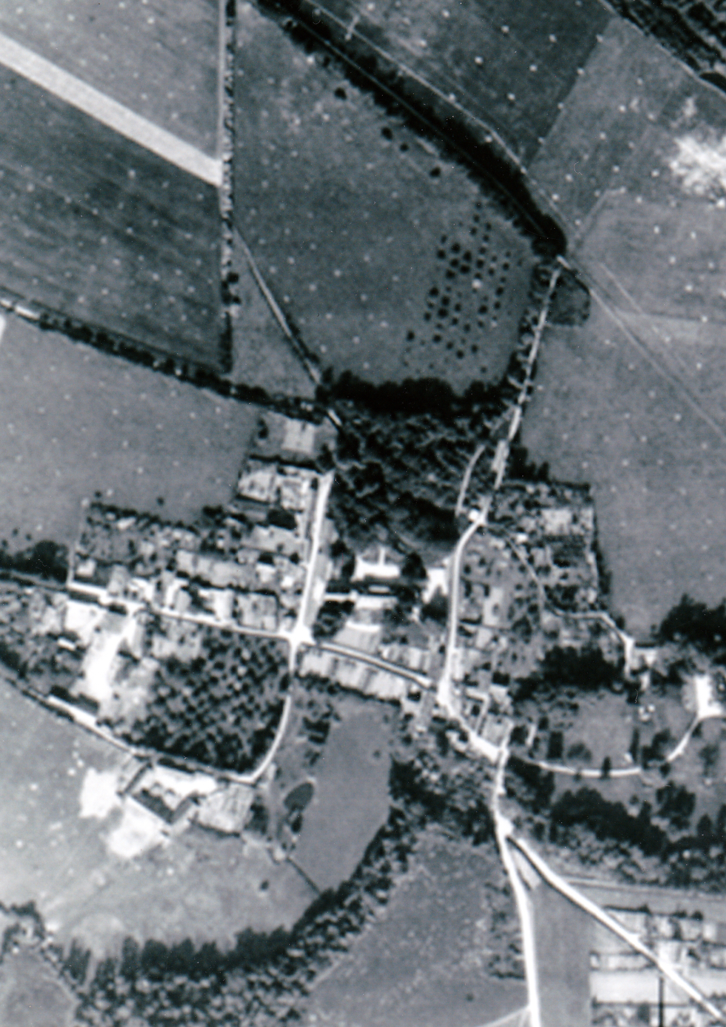 Cet agrandissement a été réalisé à partir d'une photo aérienne prise le 30 mai 1944 par les troupes alliées en vue du débarquement. Il montre le Bas de Ranville et spécifiquement le Château de Guernon-Ranville.